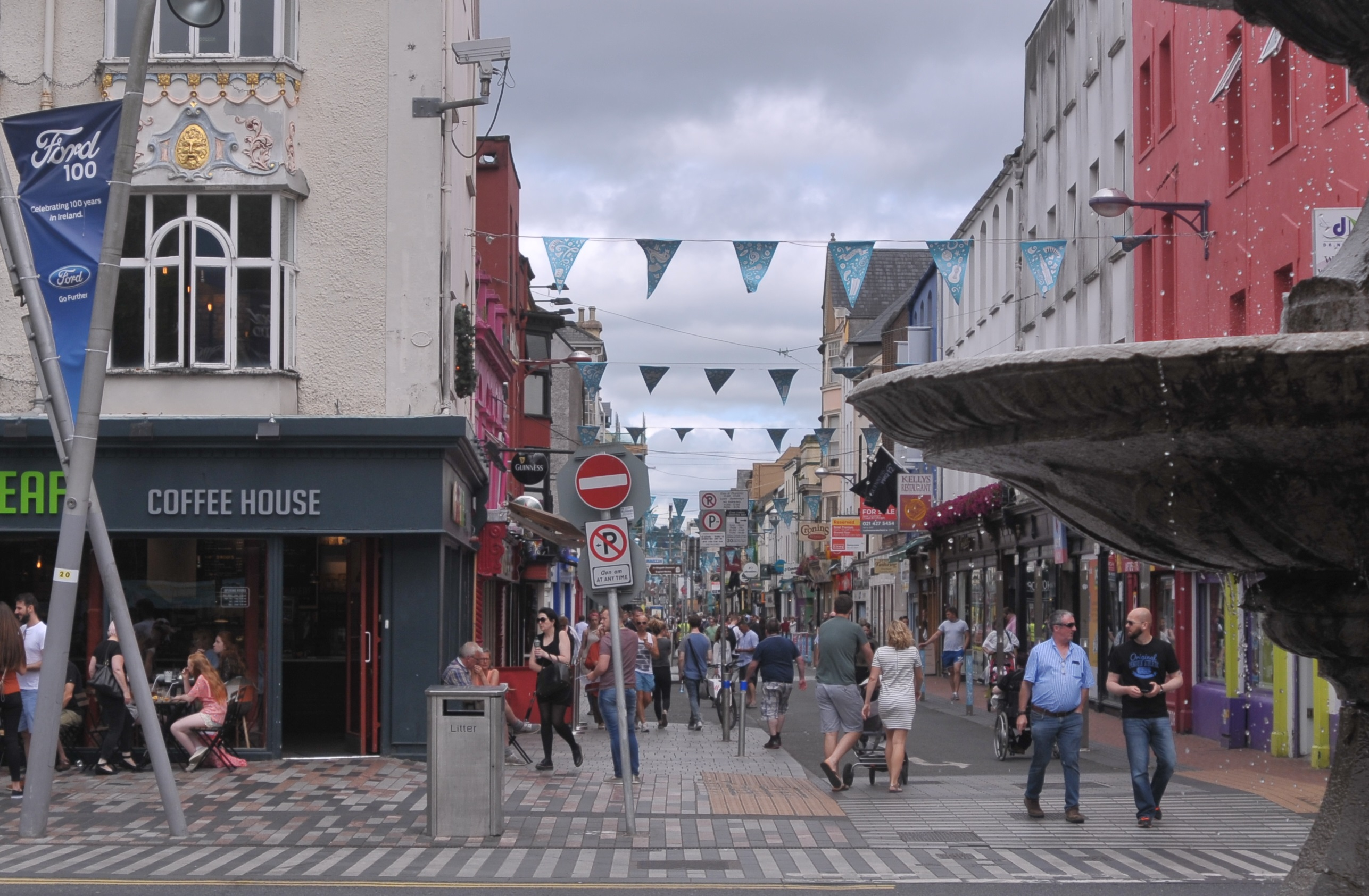 Looking east down Oliver Plunkett St.